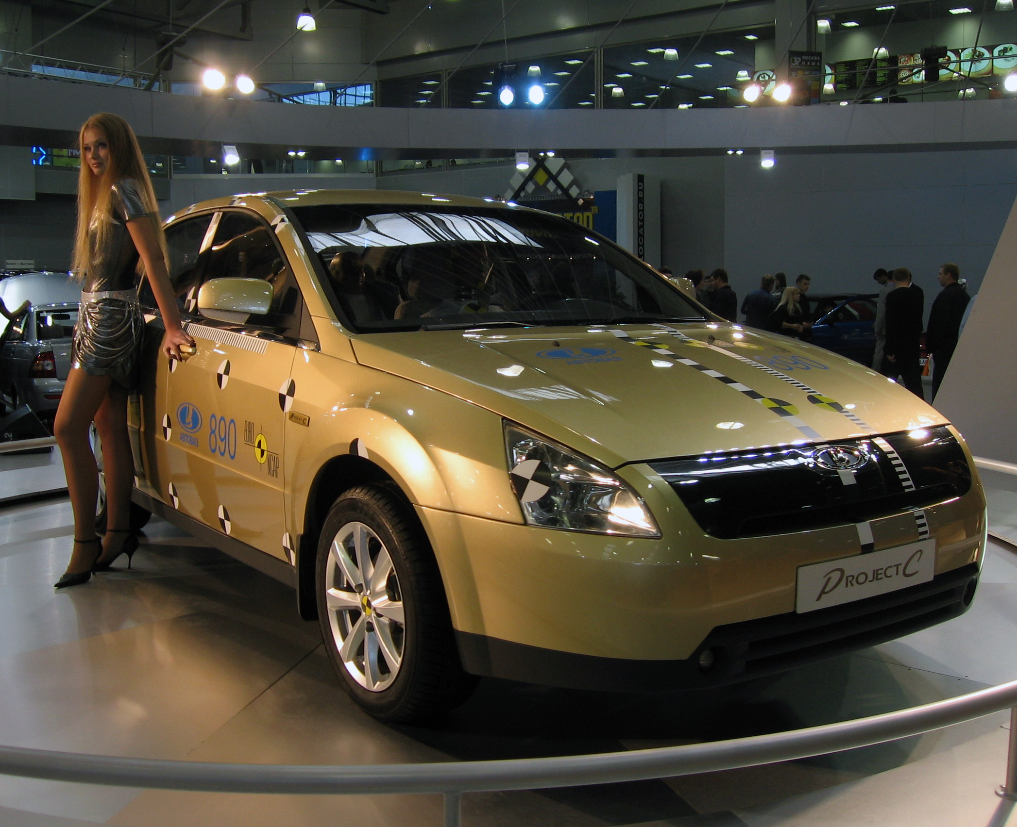 Project C MIMS 2006 Moscow. AvtoVAZ company. Lada vehicle.